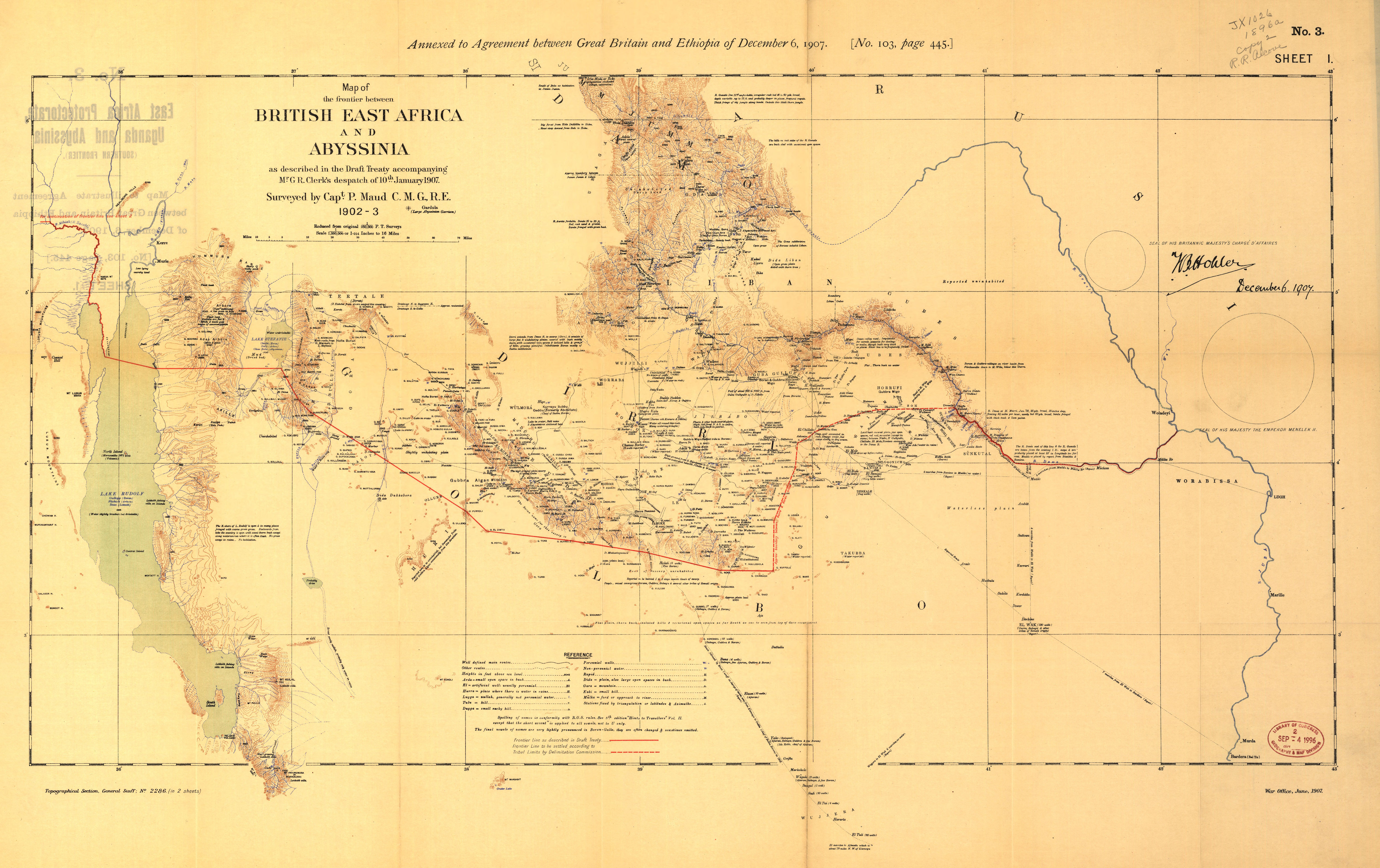 Map of the frontier between British East Africa and Abyssinia (1907)